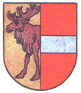 Coats of arms of Grīva, now part of Daugavpils